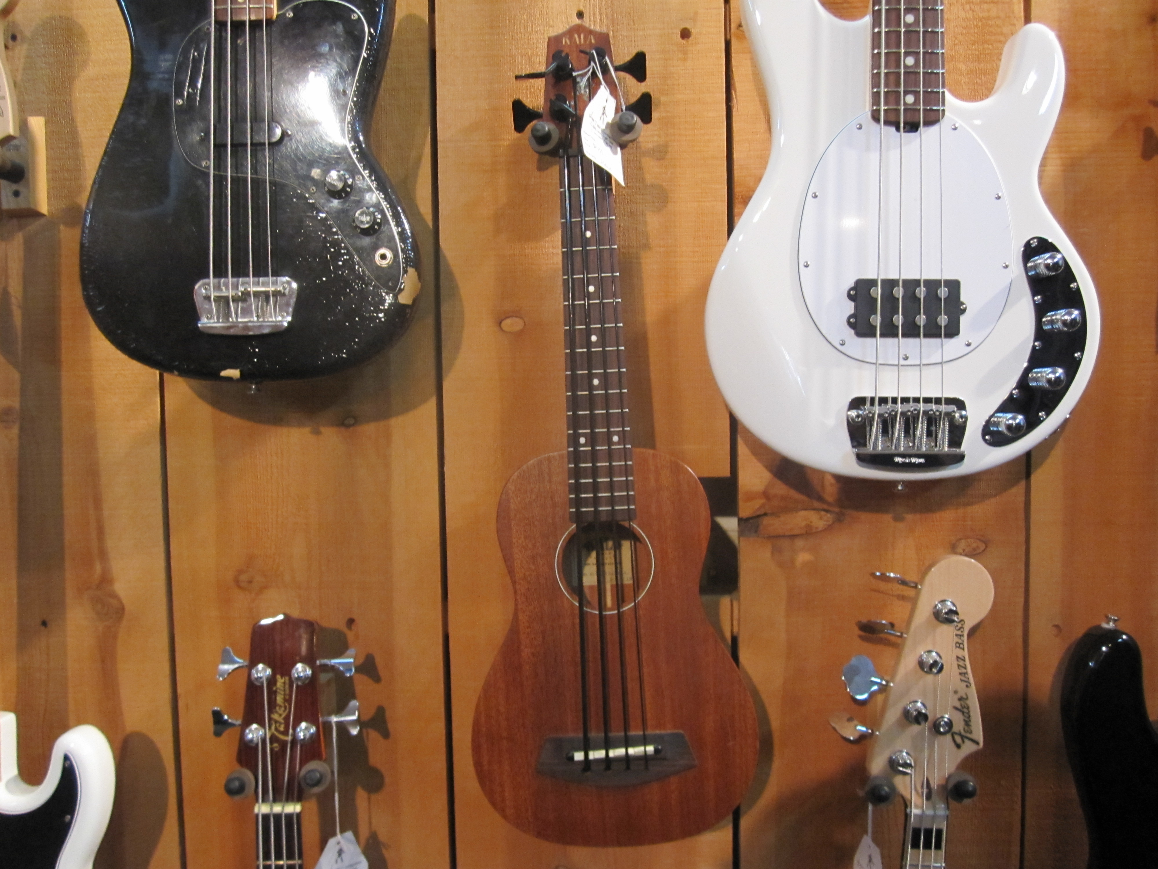 AWESOME BASS, music store, Louisville, KY KALA U-Bass short scale 21" bass “This thing was amazing.”